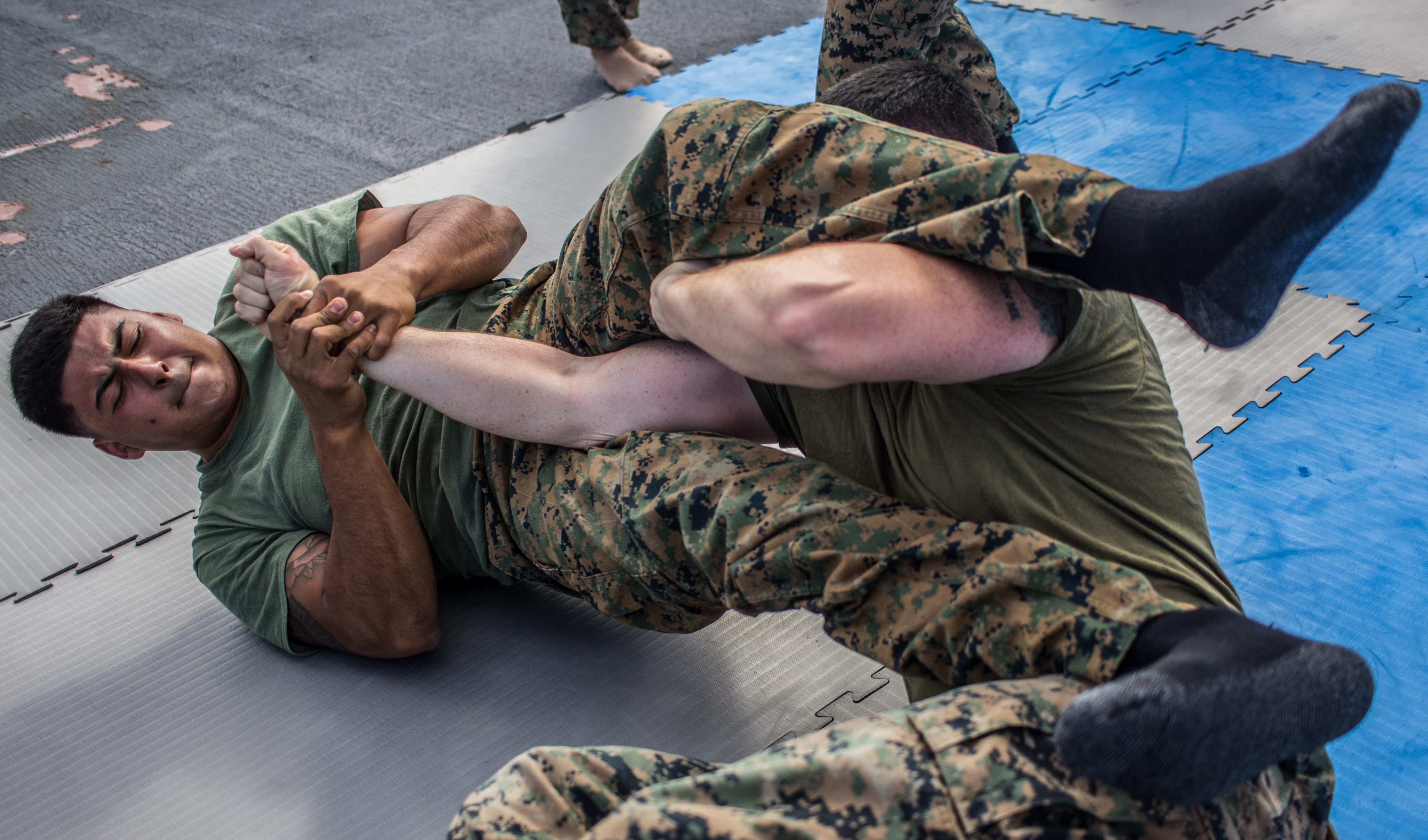 USS SOMERSET, Pacific Ocean (Oct. 28, 2016) – Cpl. Jesus Diaz attempts to put his opponent, Cpl. Edward Chontos, in an arm bar during a Marine Corps Martial Arts Program training session while afloat in the Pacific Ocean aboard USS Somerset (LPD 25), Oct. 28, 2016. Marines practice MCMAP to maintain the highest level of military readiness possible while forward deployed in the Western Pacific. Diaz is a tank commander and Chontos is a tank crewman; both are with Tank Platoon, Battalion Landing Team 1st Bn., 4th Marines, 11th Marine Expeditionary Unit. (U.S. Marine Corps Photo by Gunnery Sgt. Robert Brown/Released) Unit: 11th Marine Expeditionary Unit DVIDS Tags: Tanks; Corporals Course; USMC; 11th MEU; 11th Marine Expeditionary Unit; Navy; Marine Corps; Marines; 1st Battalion 4th Marines; Tank Platoon; BLT 1/4; USS Somerset; Battalion Landing Team 1/4; LPD-25; West-Pac 16-2; Western Pacific Deployment 16-2